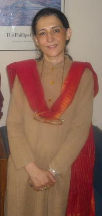 Historian Ayesha Jalal in her office at Lahore University of Management Sciences